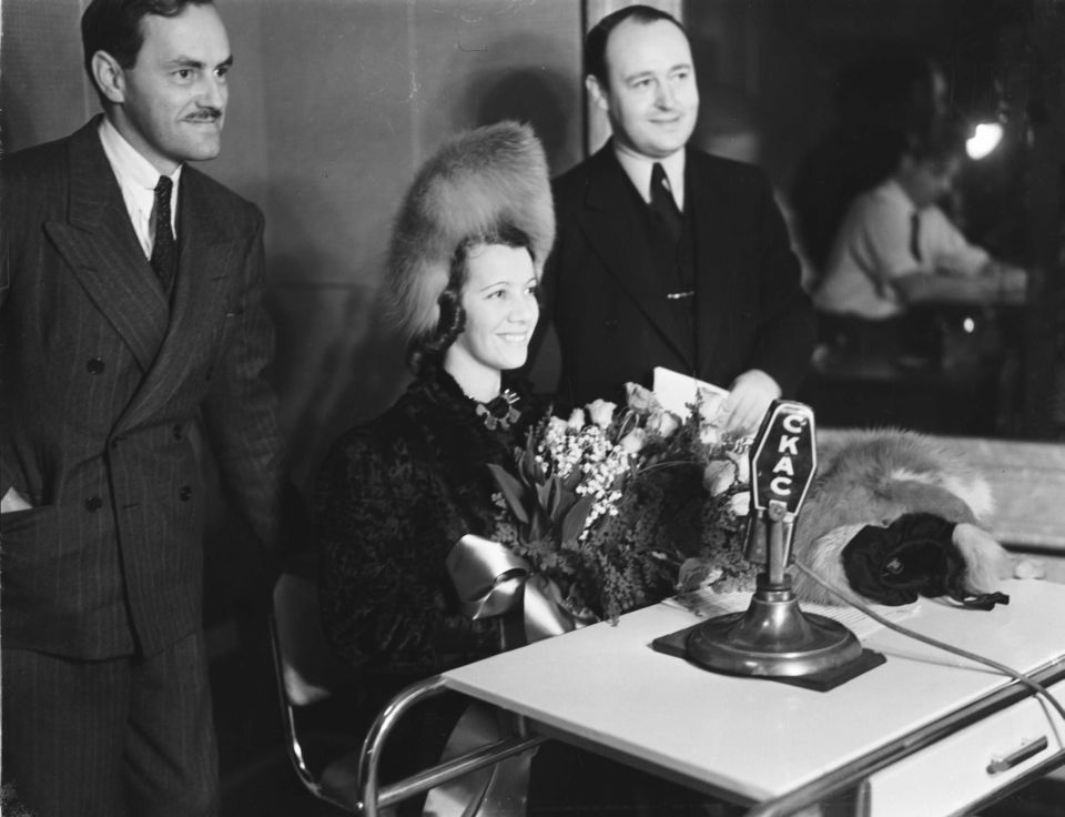 Lily Pons, French cantatrice, sitting in front of a microphone, surrounded by two leaders in the local radio station CKAC, located at 980 Sainte-Catherine Street West, Montreal.